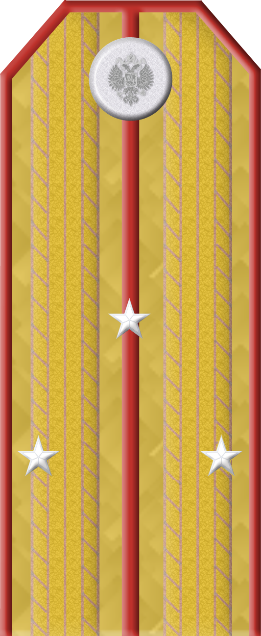 Rank insignia of the Imperial Russian Army, here "Poruchik" – shoulder strap 1909-1917. Particularity: Cossack Army “Sotnik”.